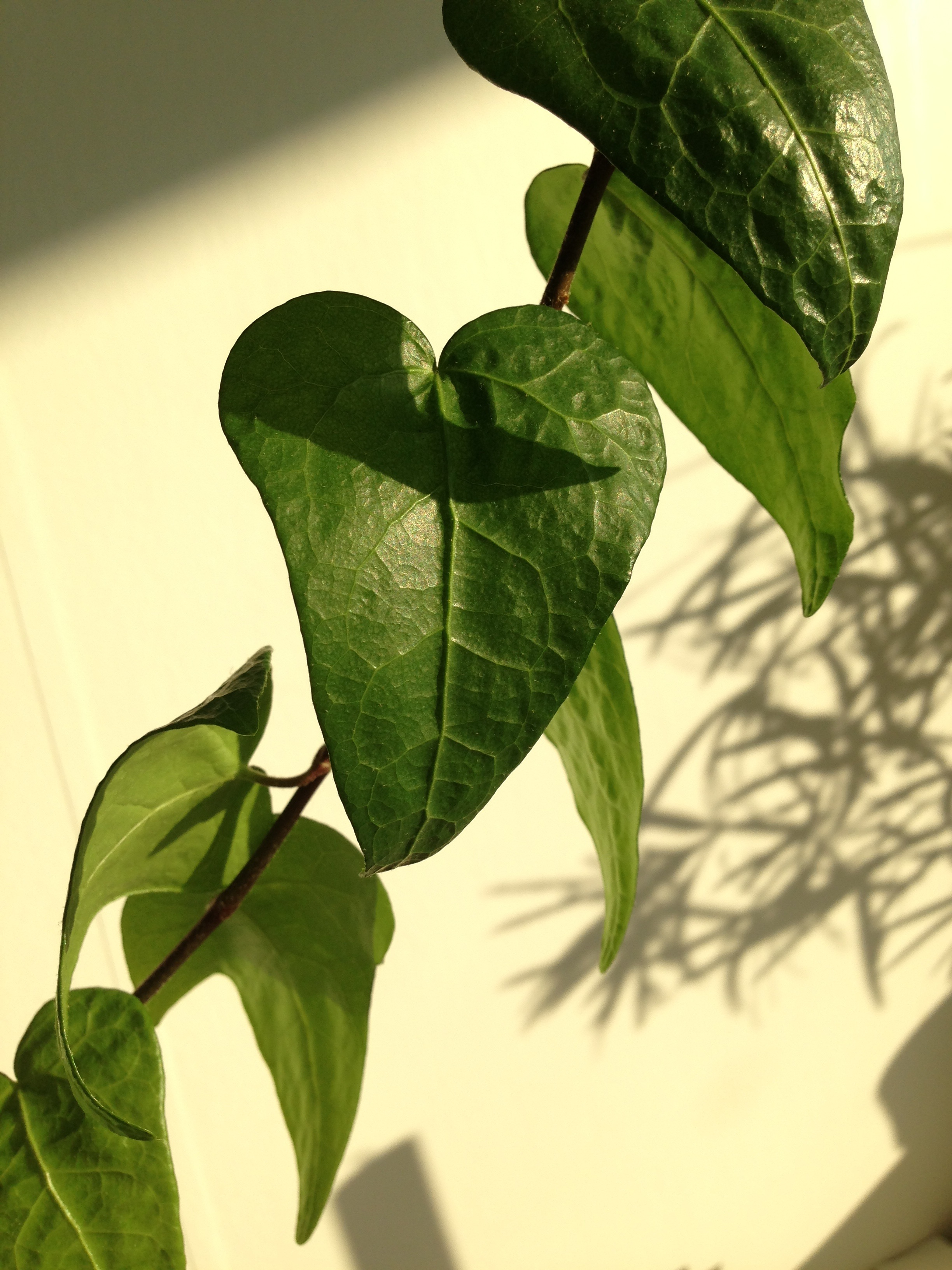 A hedera helix leaf in the shape of a heart.